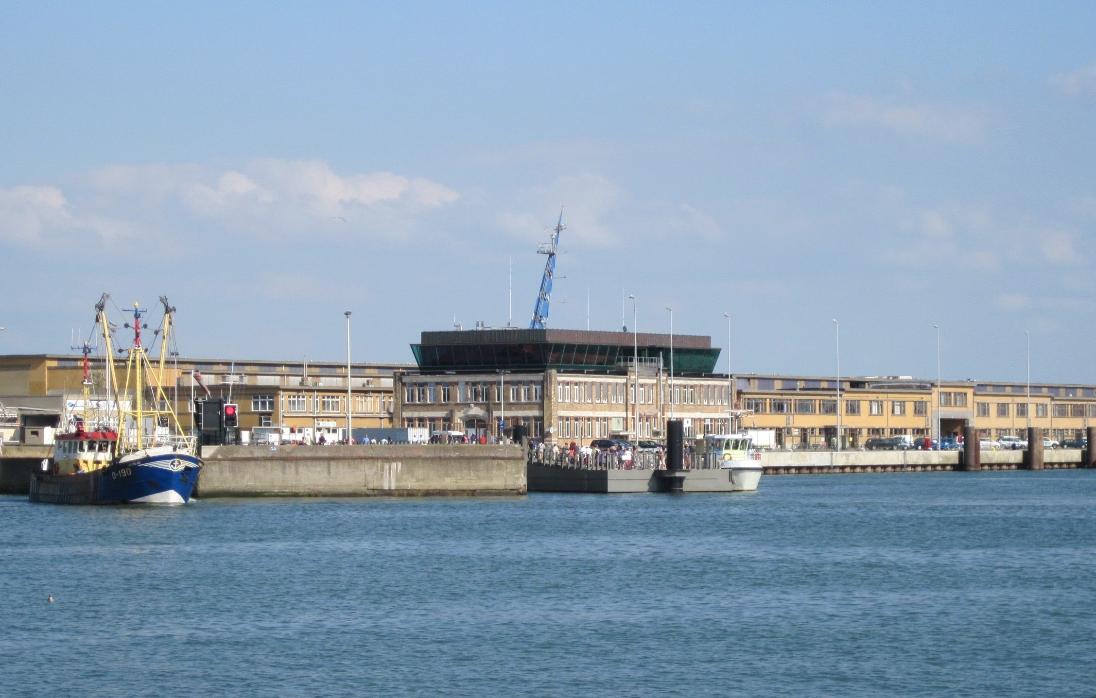 Maritime Rescue and Coordination Centre in Ostend, Belgium